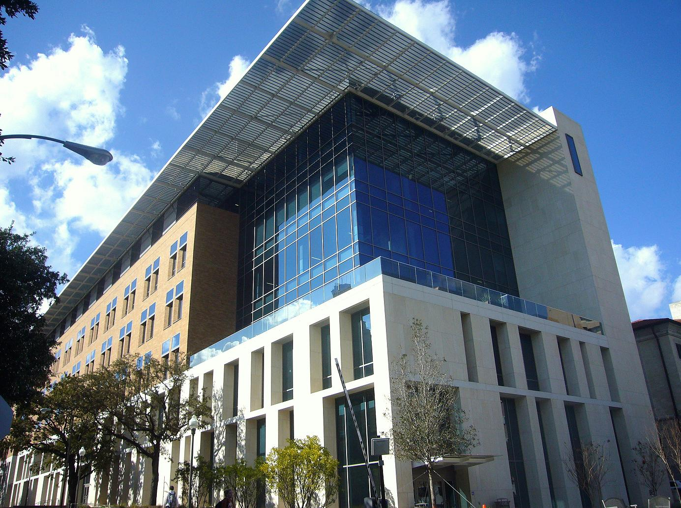 The Norman Hackerman Building at the University of Texas at Austin.